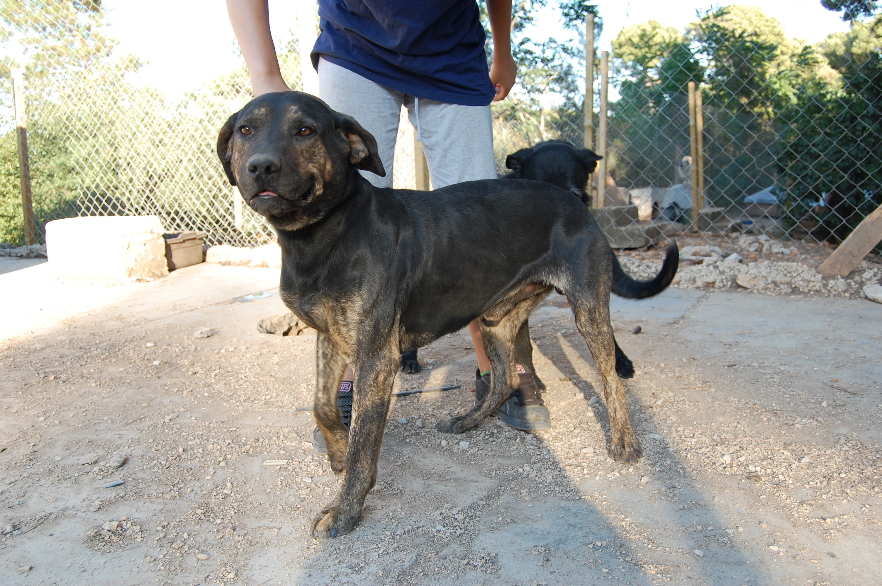 In black & tan dogs that have the brindle gene, brindling can show up on the tan parts of their body. On the photo is Bobi, a Rottweiler mix. The photo was taken in a dog shelter in Zadar, Croatia. This coloration is quite common in dogs from Zadar area.